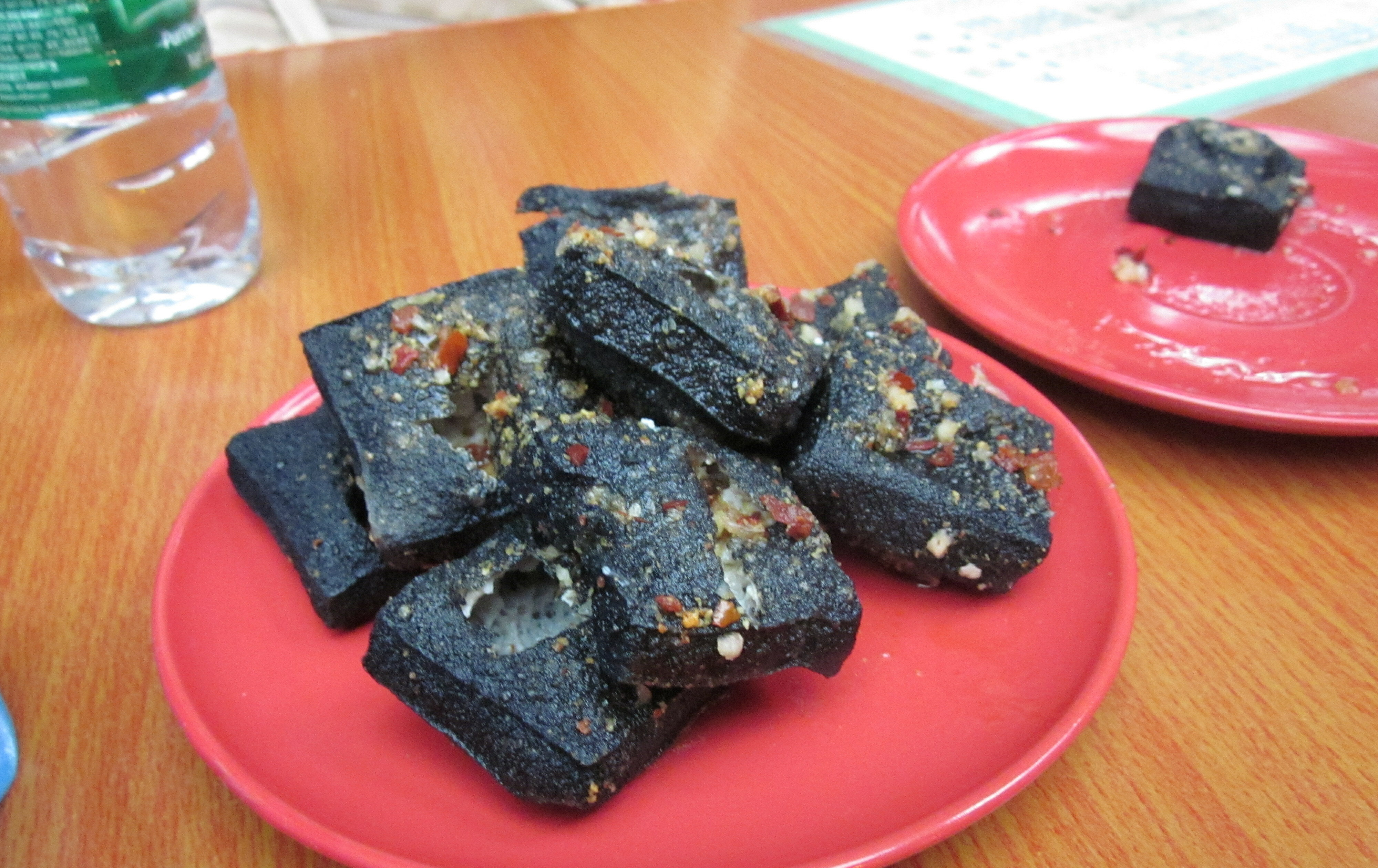 Stinky tofu, one of the most famous snacks in the Chili Garden (Huogong Palace) of Changsha, Hunan, China.